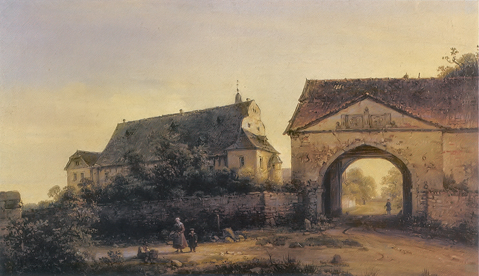 Schloss Styrum, southern aspect, around 1840; Städtisches Museum Mülheim an der Ruhr